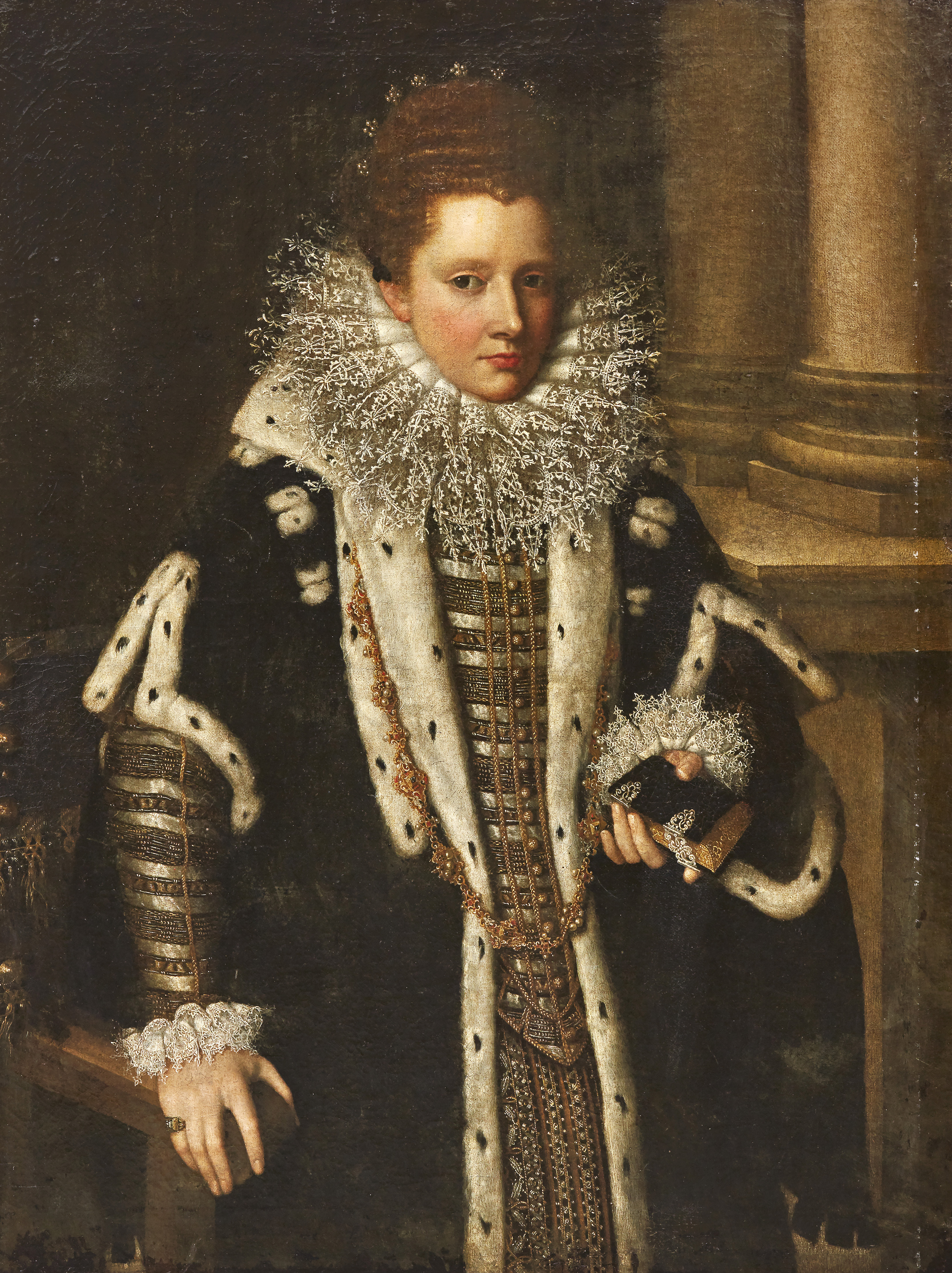 Portrait of Costanza Sforza of Santa Fiora (1550-1617), wife of Giacomo Boncompagni, standing three quarter length by a colonnade, her right hand resting on the armrest of a chair, with a prayer book in her left hand